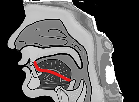 The shape of tongue when ㄴ is pronounced